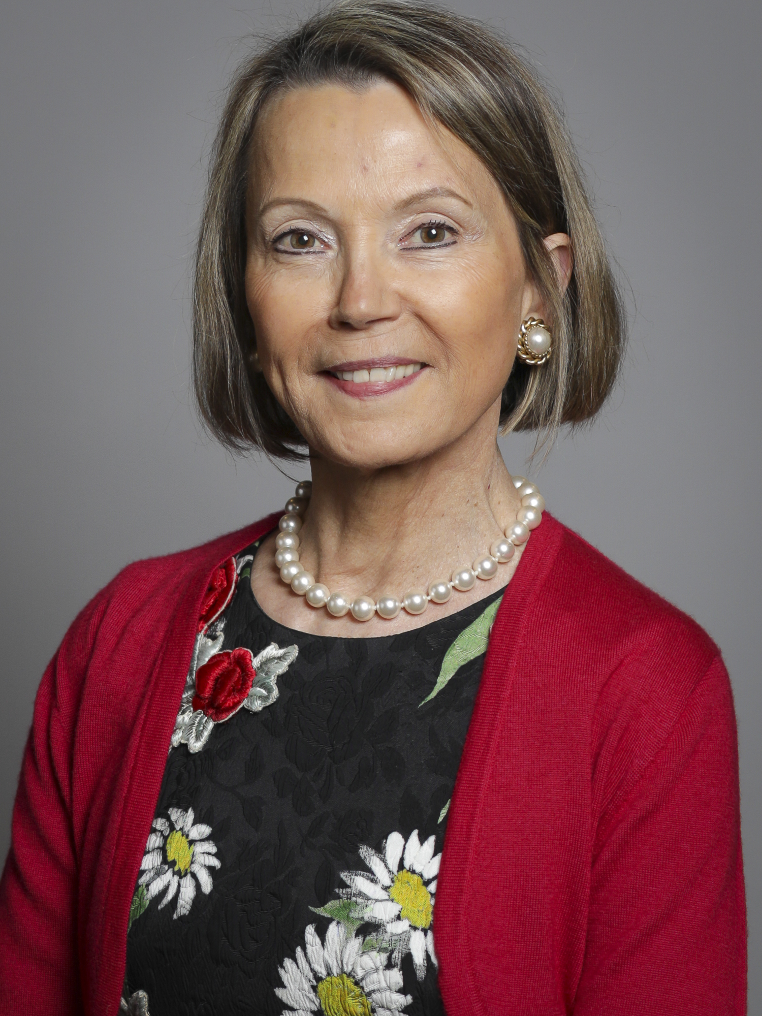 Official portrait of Baroness Meyer 3×4 portrait of Baroness Meyer